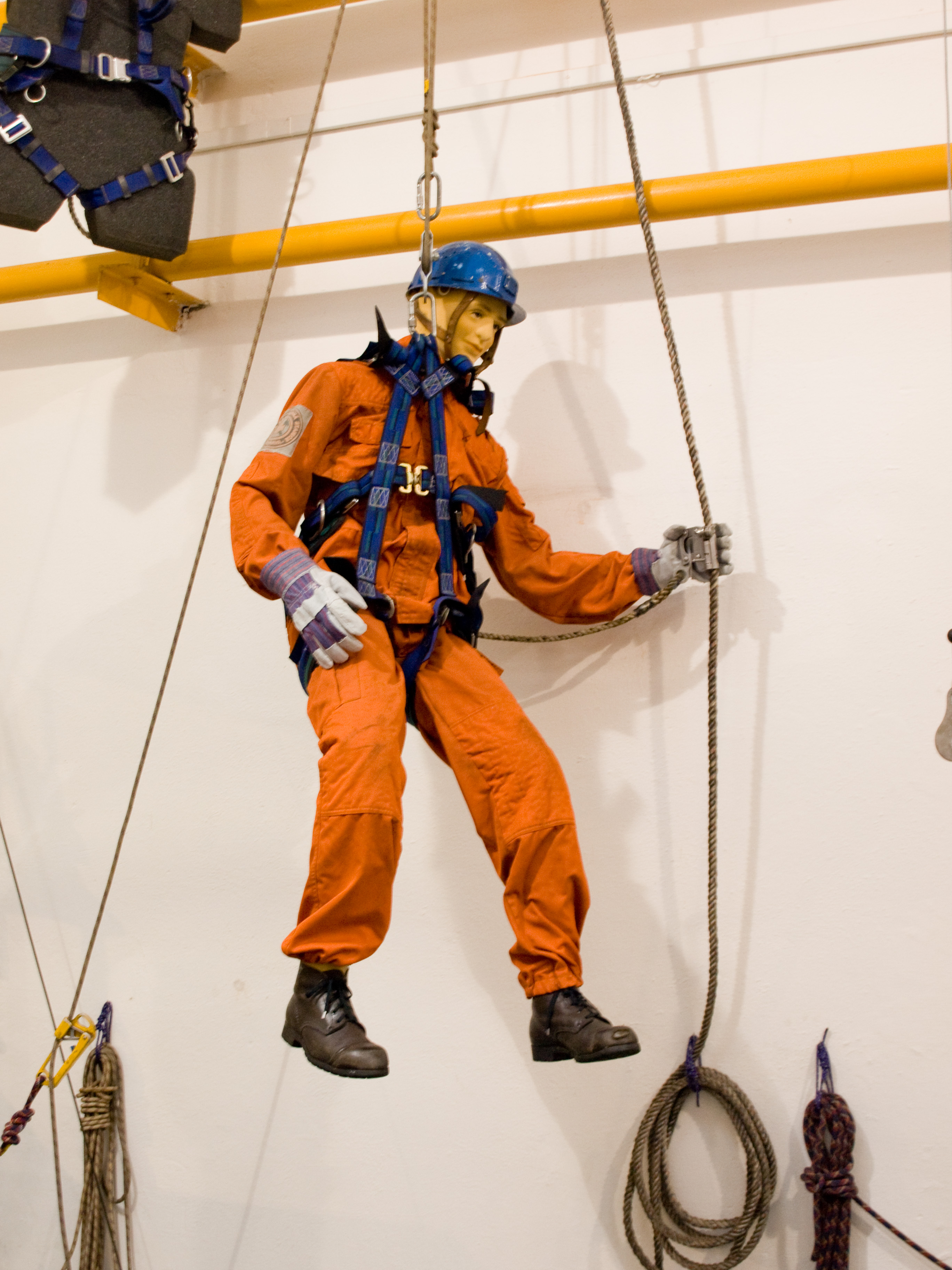 Interior of exposicion, Mining museum in Ostrava